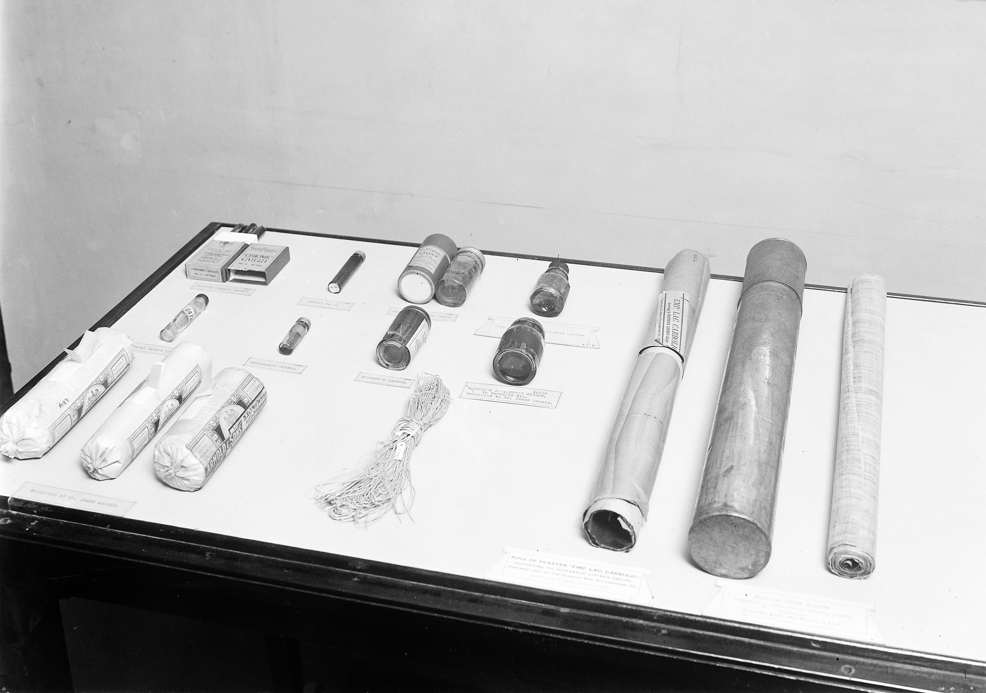 Lister relics including catgut, lac plaster etc. Wellcome Images Keywords: Joseph Lister